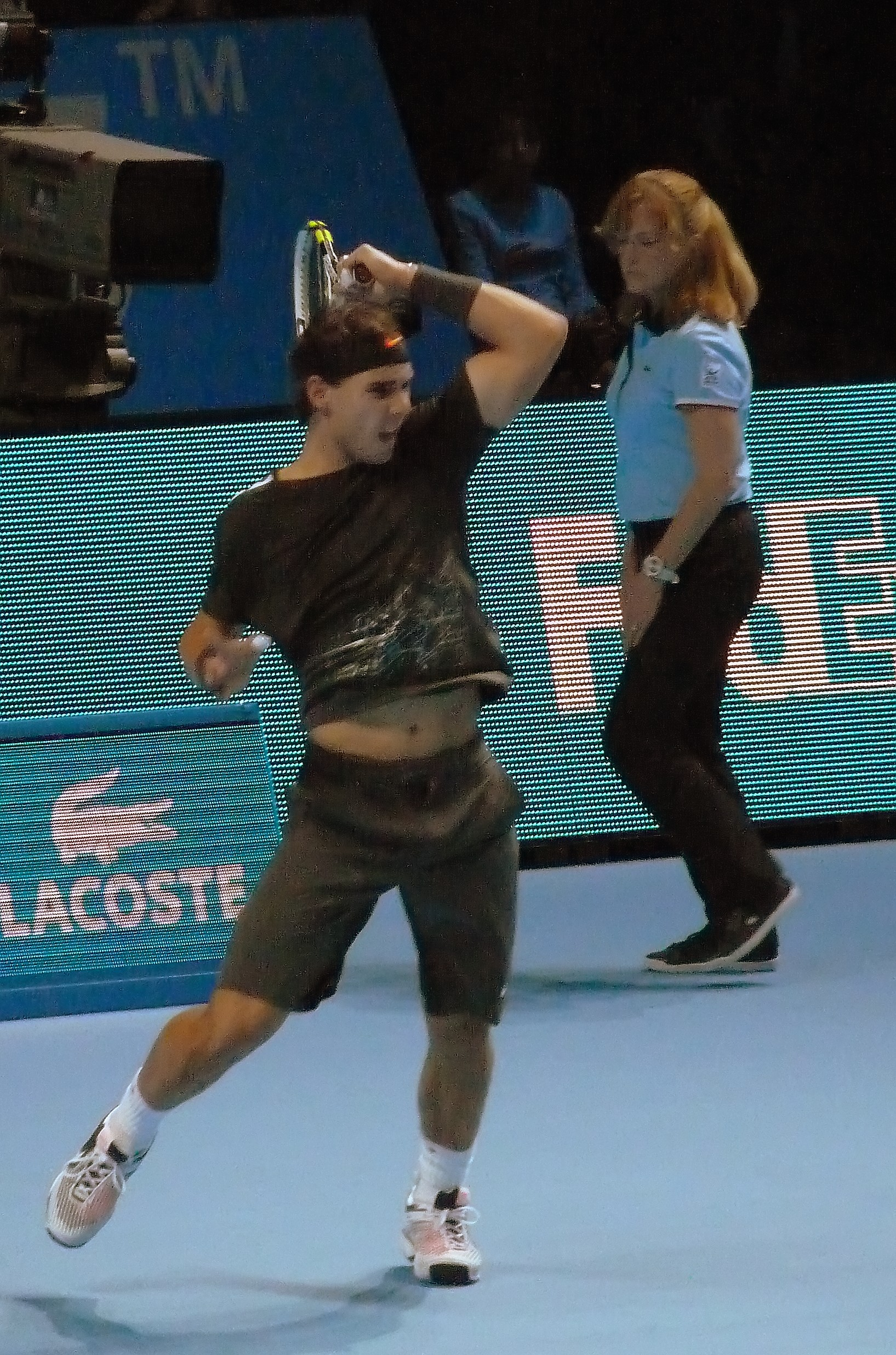 ATP World Tour Finals, the O2, London November 2011.